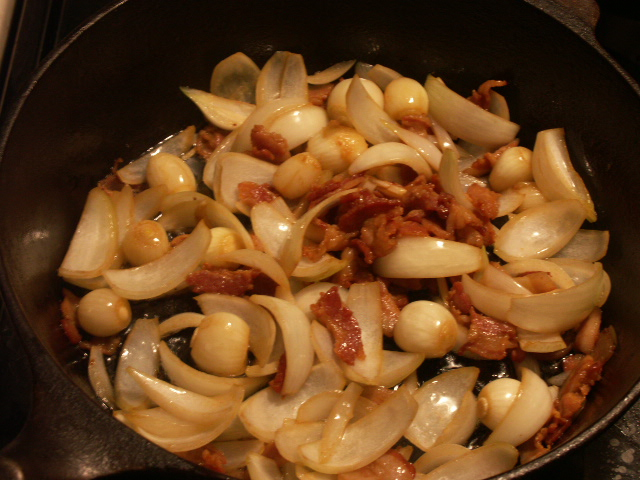 Step in the making of coq au vin: browning the bacon, onions and garlic. Photo by: user:gene.arboit